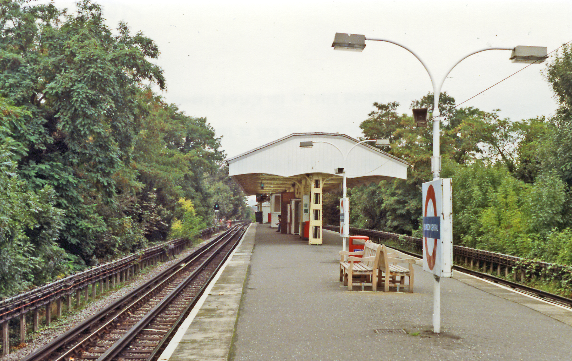 Hounslow Central station, 1992. View eastward on the island platform, towards London: LT Underground Piccadilly (formerly also District) Lines, Cockfosters - Piccadilly Circus - Acton Town - Hounslow West - Heathrow Terminals. The station as built by the Metropolitan-District Railway was named 'Heston & Hounslow' until 12/25. District Line services ceased from 10/10/6; Piccadilly Line services commenced 13/3/33, being extended from Hounslow West to the Heathrow Terminals in stages between 19/7/75 and 27/3/08 - when Heathrow Terminal 5 was opened.